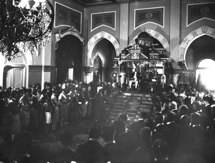 The governor of Sumatra's East Coast visiting the Sultan of Deli in his palace, the Istana Maimun